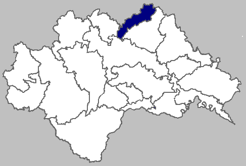 Self-made map of Velika Ludina municipality within Sisak-Moslavina County.